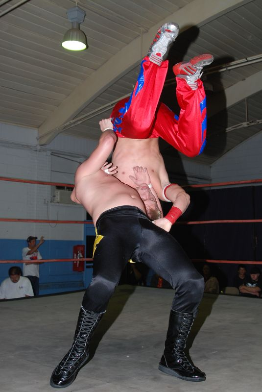 Derek Ryze executing a suplex on Stoney Hooker.